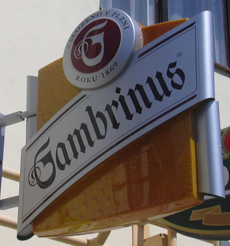 Gambrinus logo(Beer- czech republic)